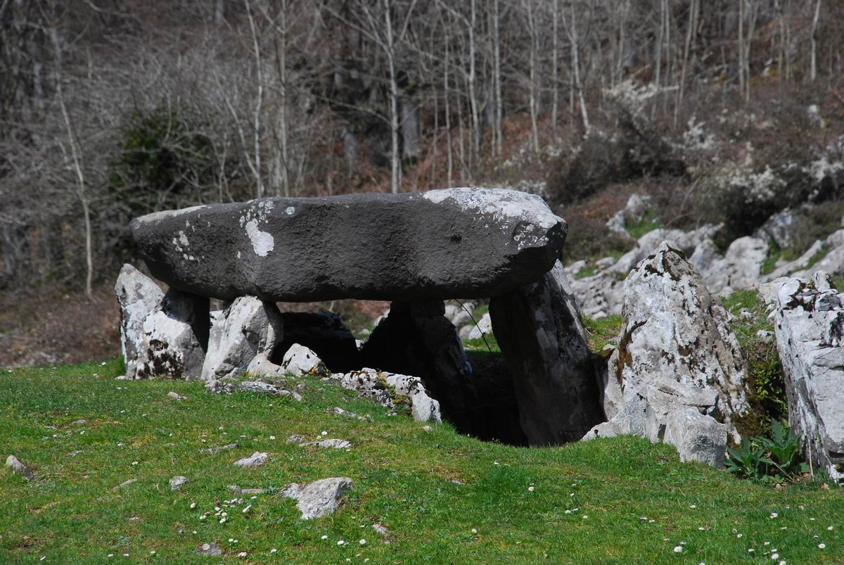 Jentilarri dolmen.